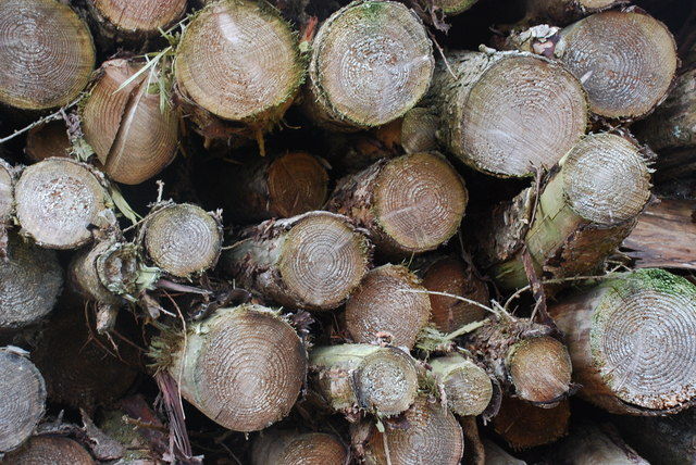 Coed - Timber Cut timber stacked on the slopes of Mynydd Carnguwch.